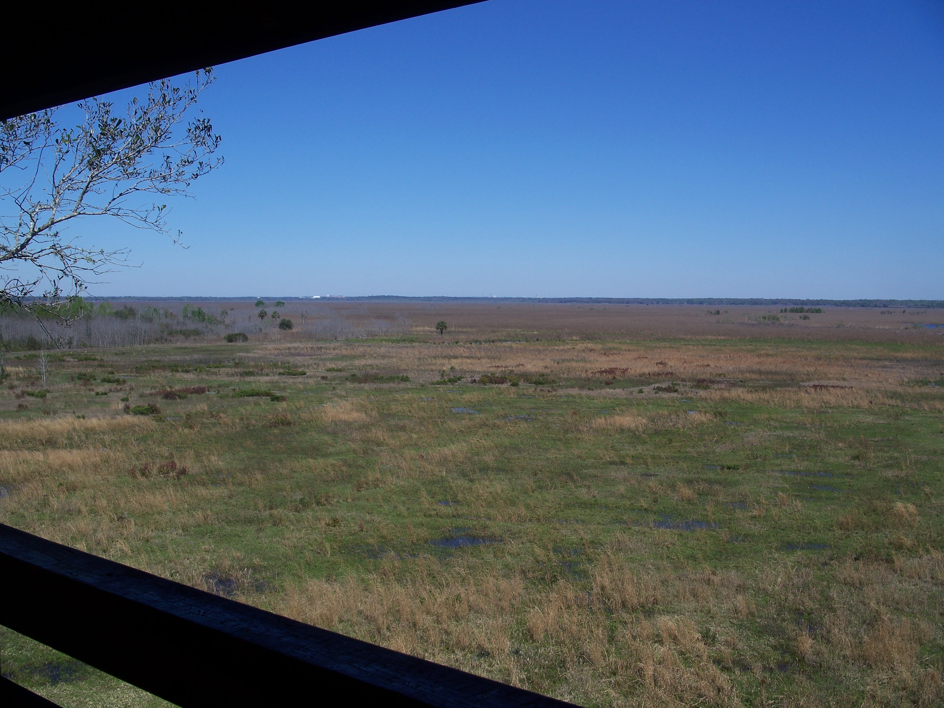 View of Paynes Prairie from the top of the observation tower.